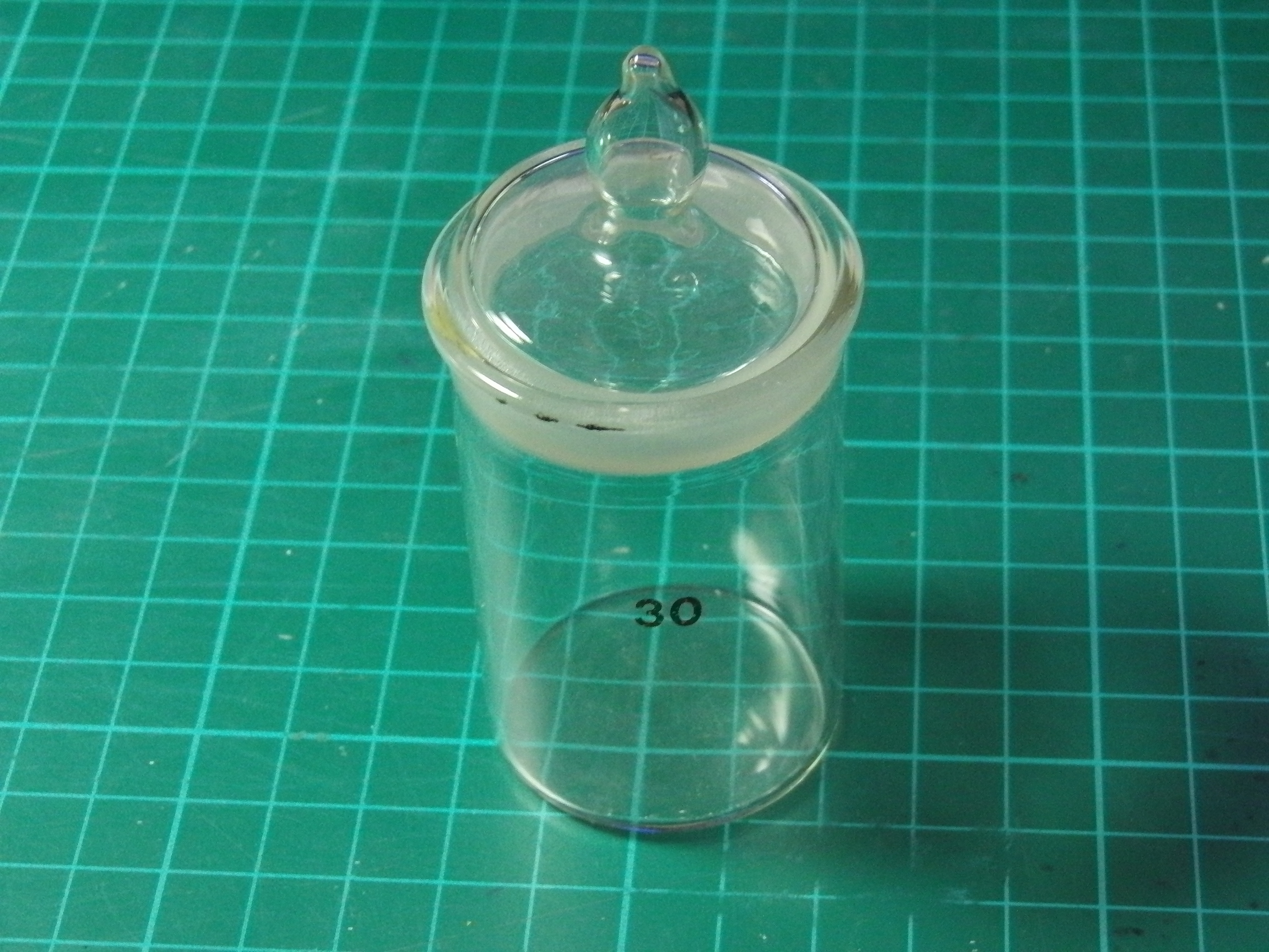 Scale bottle